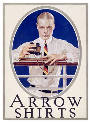 Arrow Shirts advertisement, United States